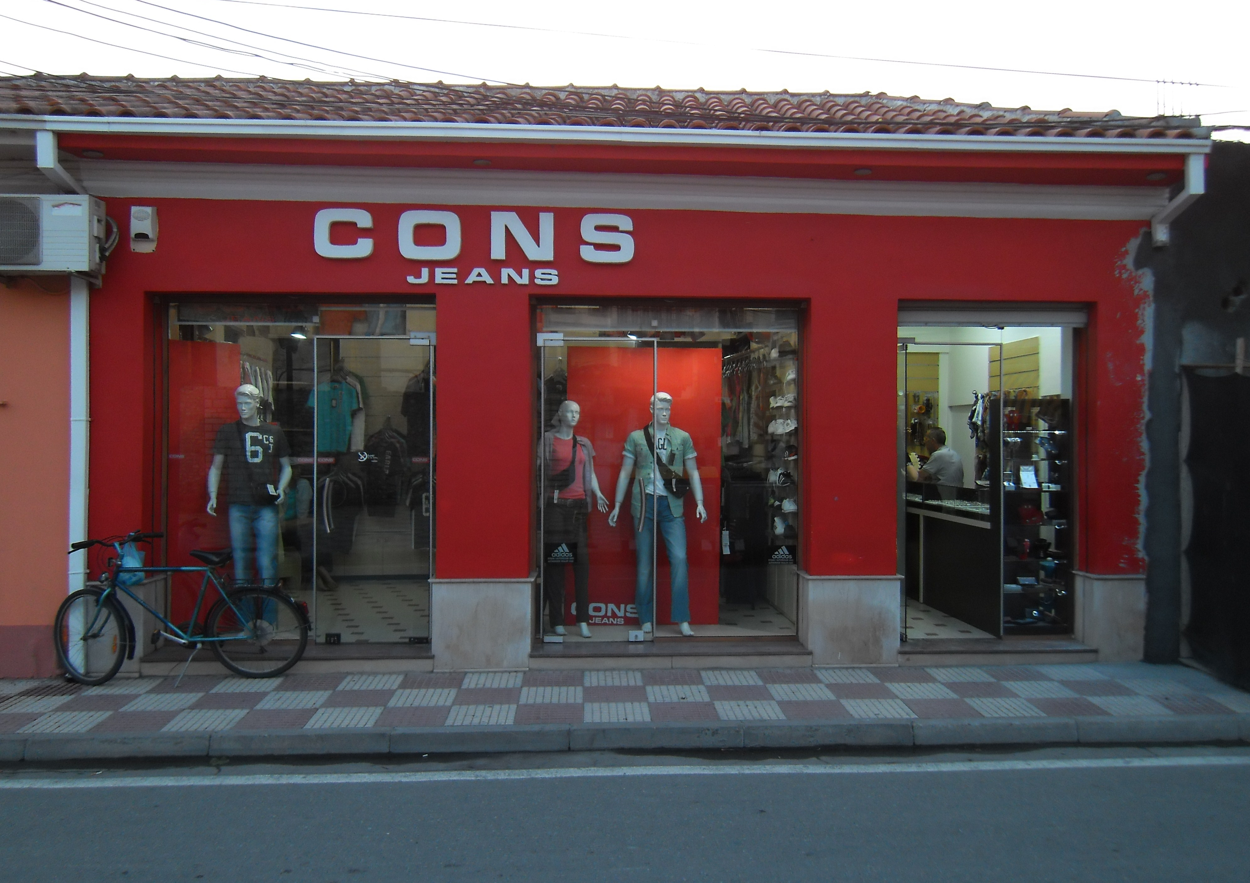 Jeans-shop in Shkodra, Albania